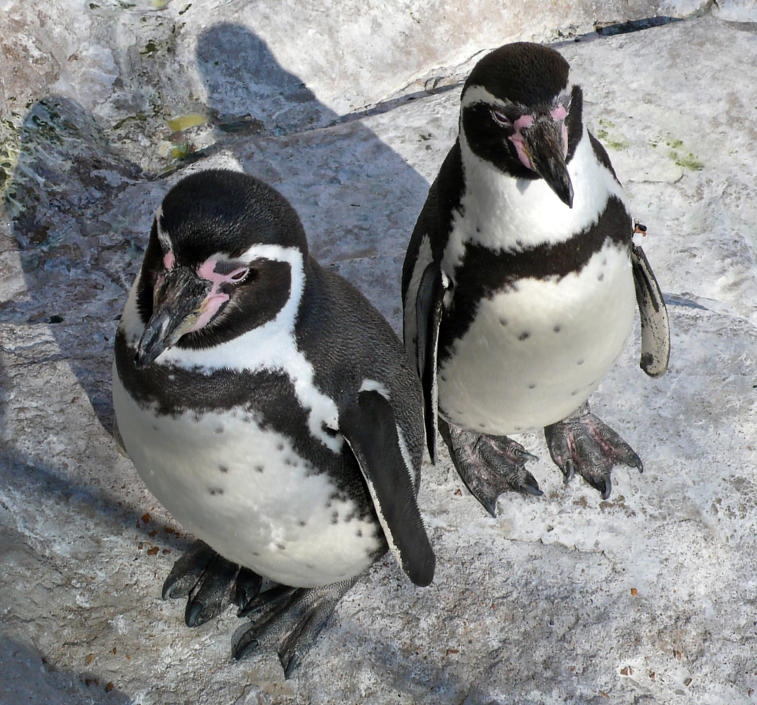 Humboldt penguins (Spheniscus humboldti)